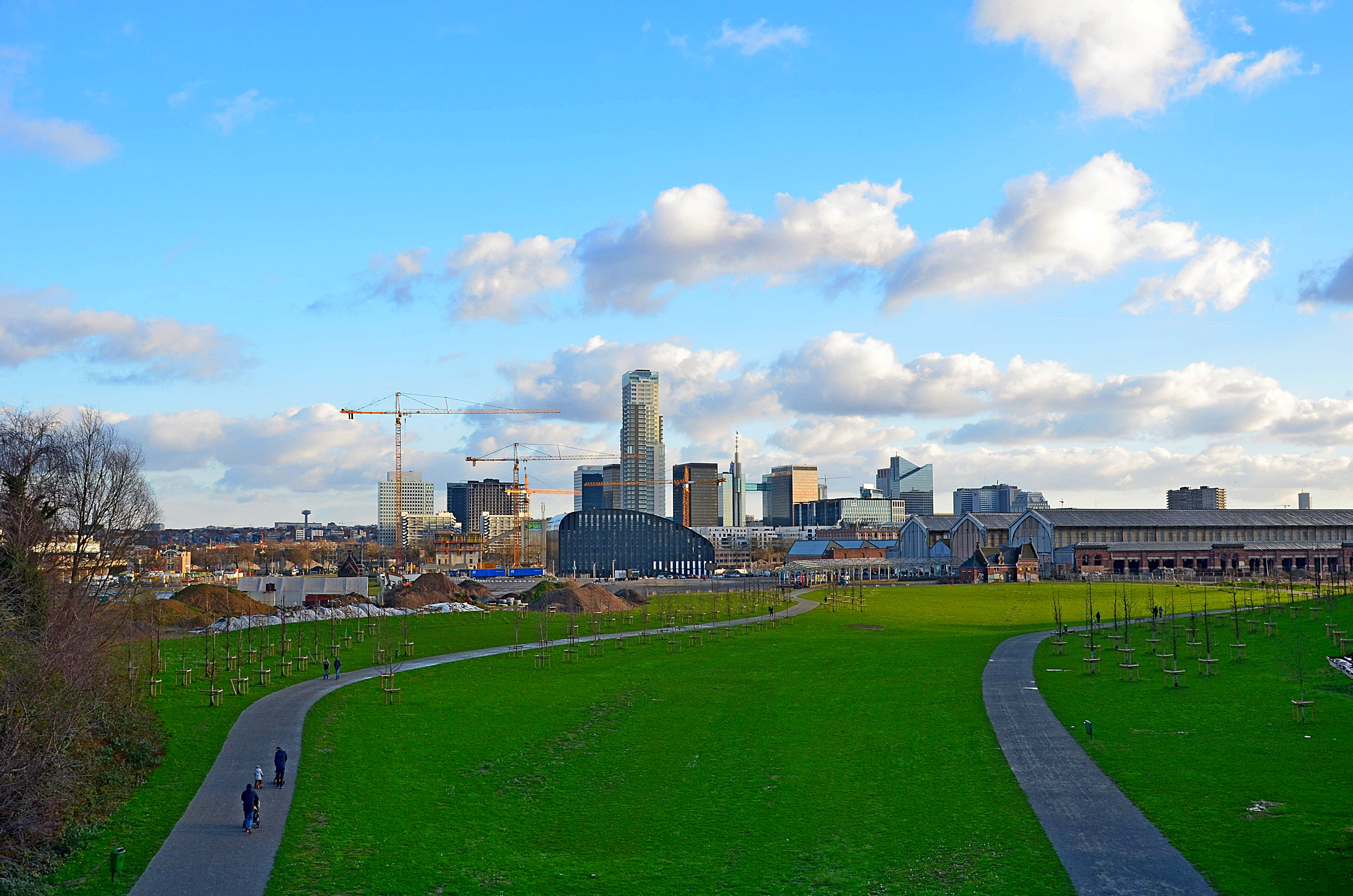 This photo of immovable heritage has been taken in the Brussels Capital Region